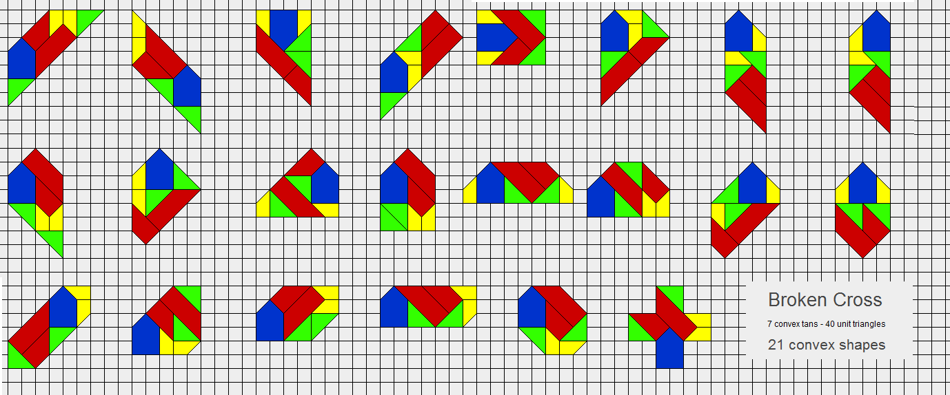 Broken Cross, a set of 7 convex tans of area 40 unit triangles and its 21 convex shapes